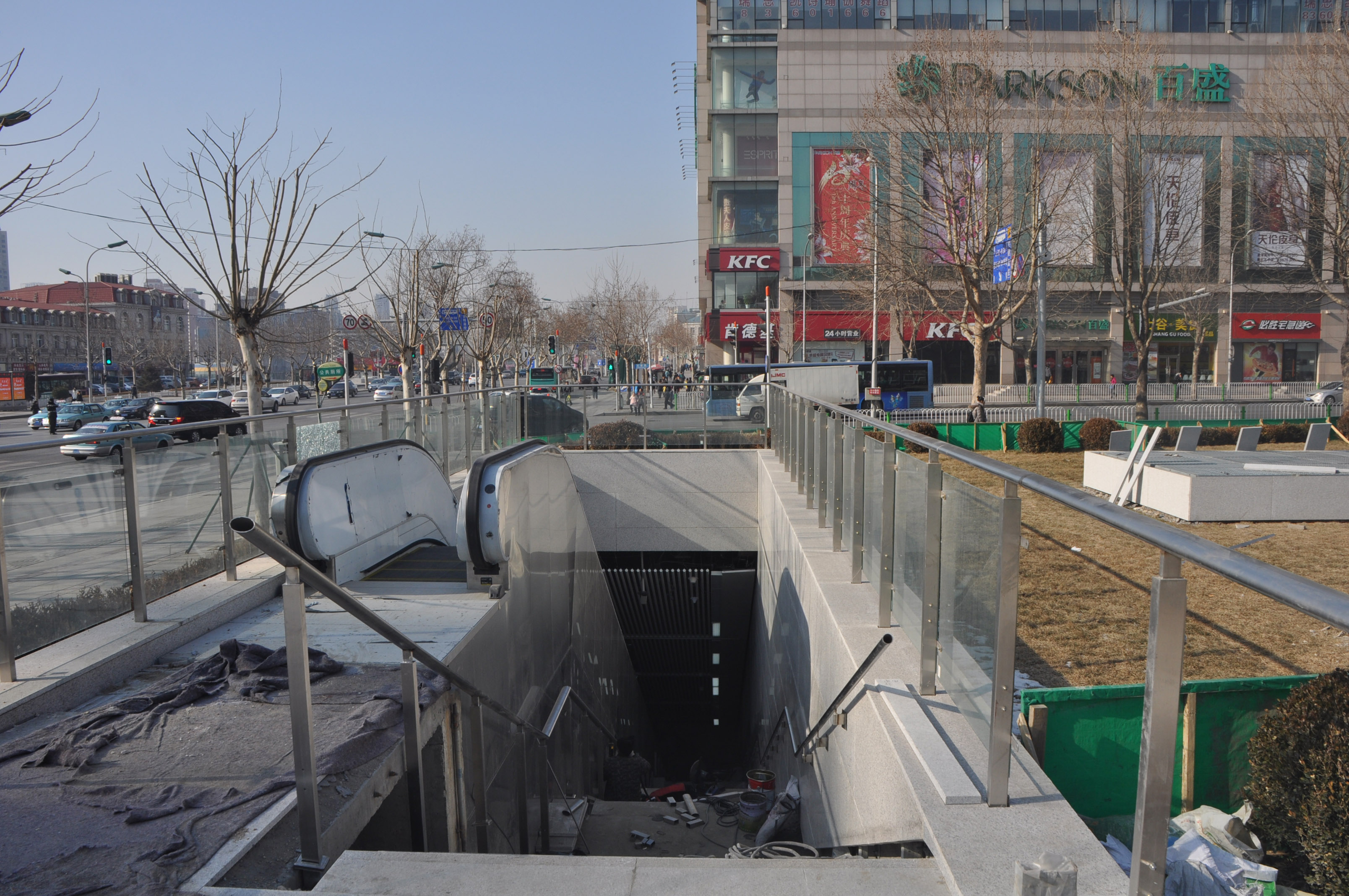 Dalian Metro Line 2-People's Square Station Entrance